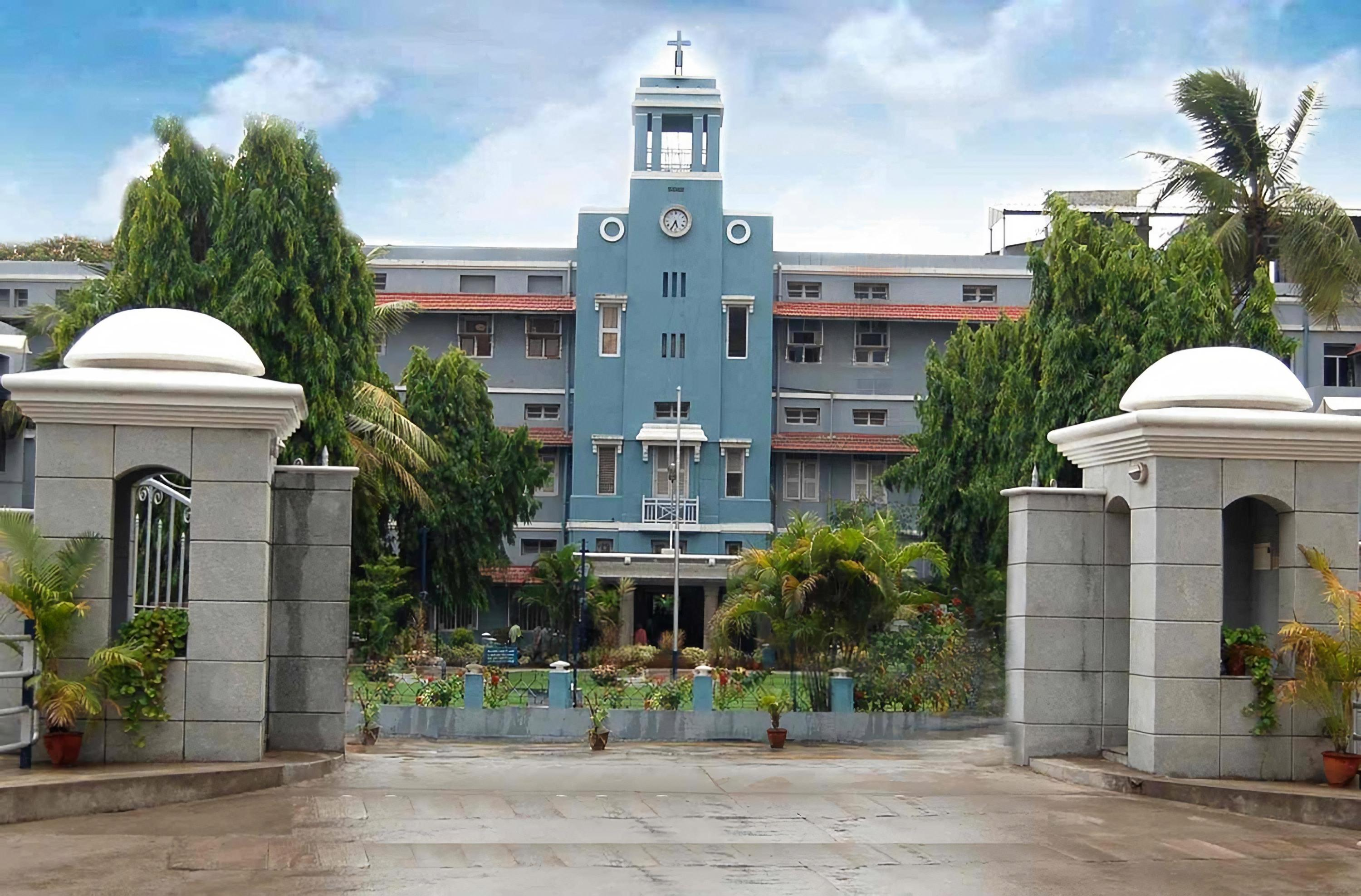 Main hospital building, CMCH, Vellore, Tamil Nadu, India